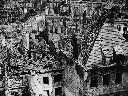 The French town of Arras, pictured here, was almost entirely destroyed by shellfire during World War I. Close to the River Somme, it was caught up in some of the heaviest fighting on the Western Front. The 12,000 Allied troops who were stationed there lived deep underground in a network of caves and tunnels. Even today, there still exist about 20 miles of stairways, passages, caverns and sewers underneath the town. When the war finally ended on November 11th 1918, the entire town of Arras lay in ruins. The war artist, John Singer Sargent (1856-1925), painted a number of scenes showing the otherworldly devastation at Arras, one of which is called 'A Street in Arras.'